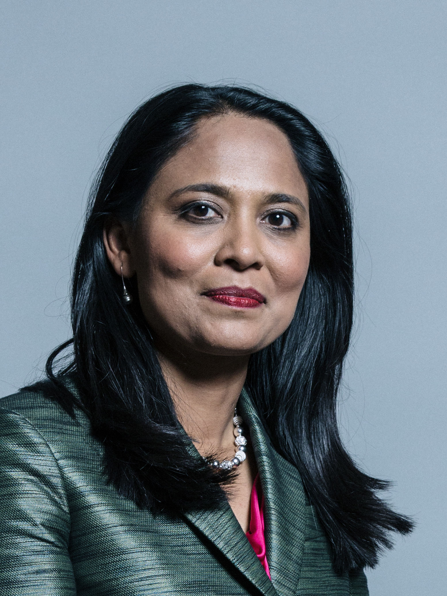 Official Parliamentary photograph of Rushanara Ali MP